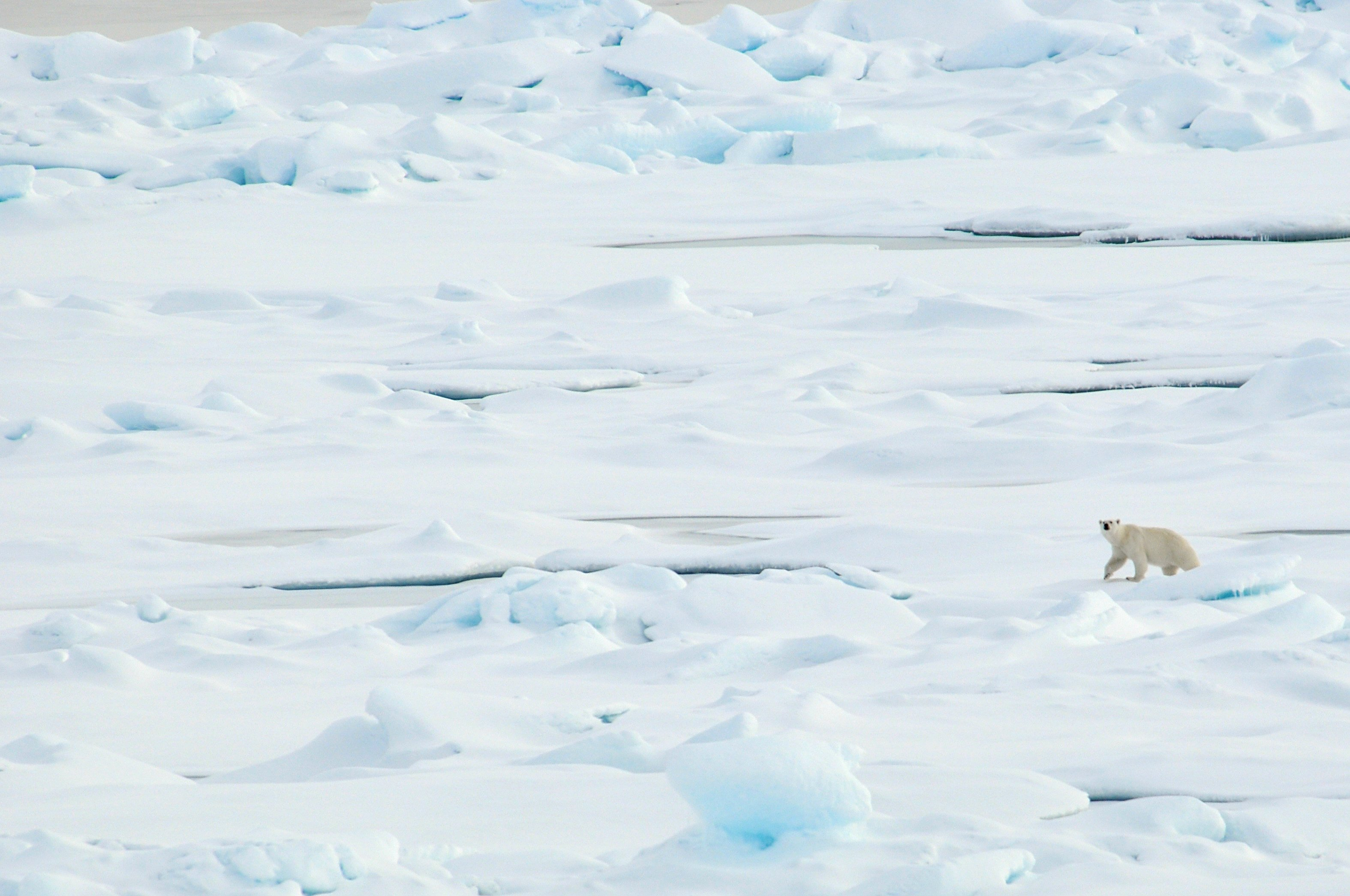 Polar bear on sea ice. Alaska, Beaufort Sea.